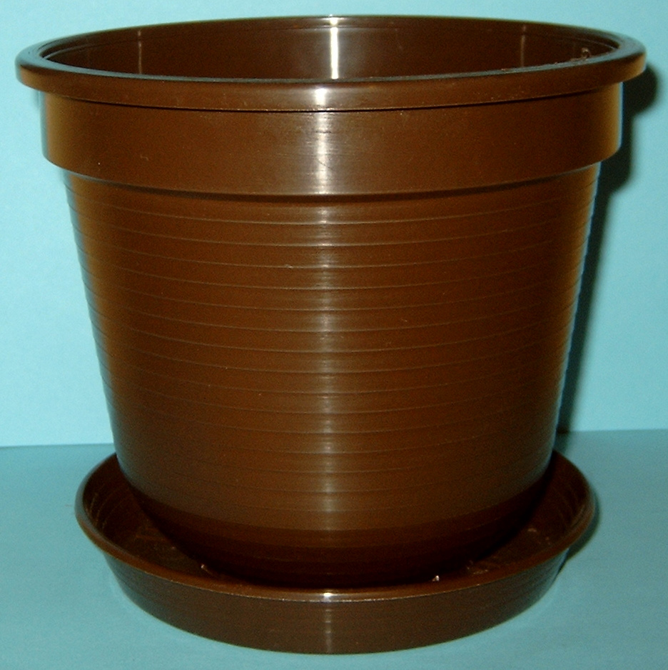 modern flower pot with saucer, both made of polypropylene